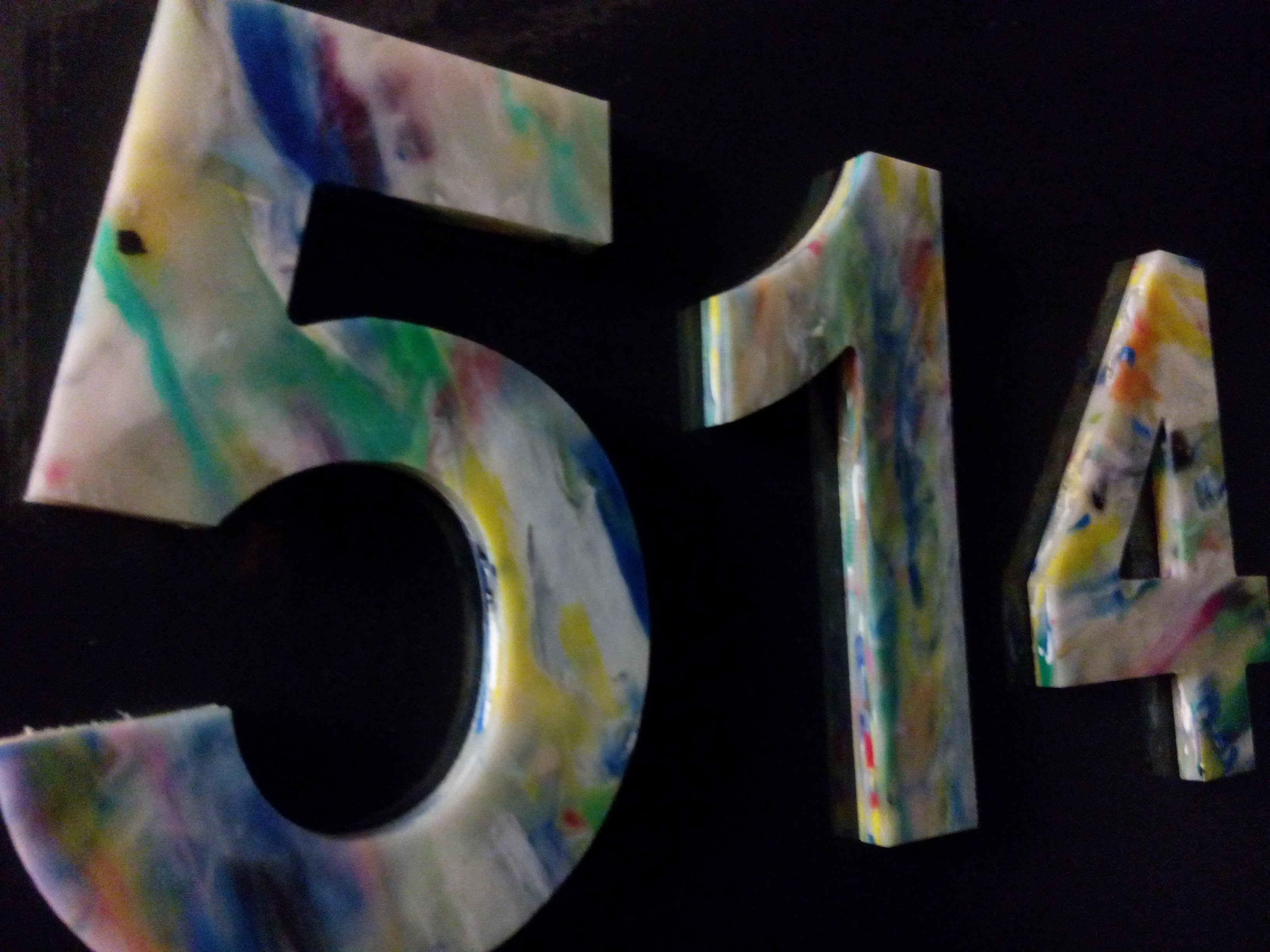 Flat number made from recycled plastic, Greenhouse, Beeston, Leeds.